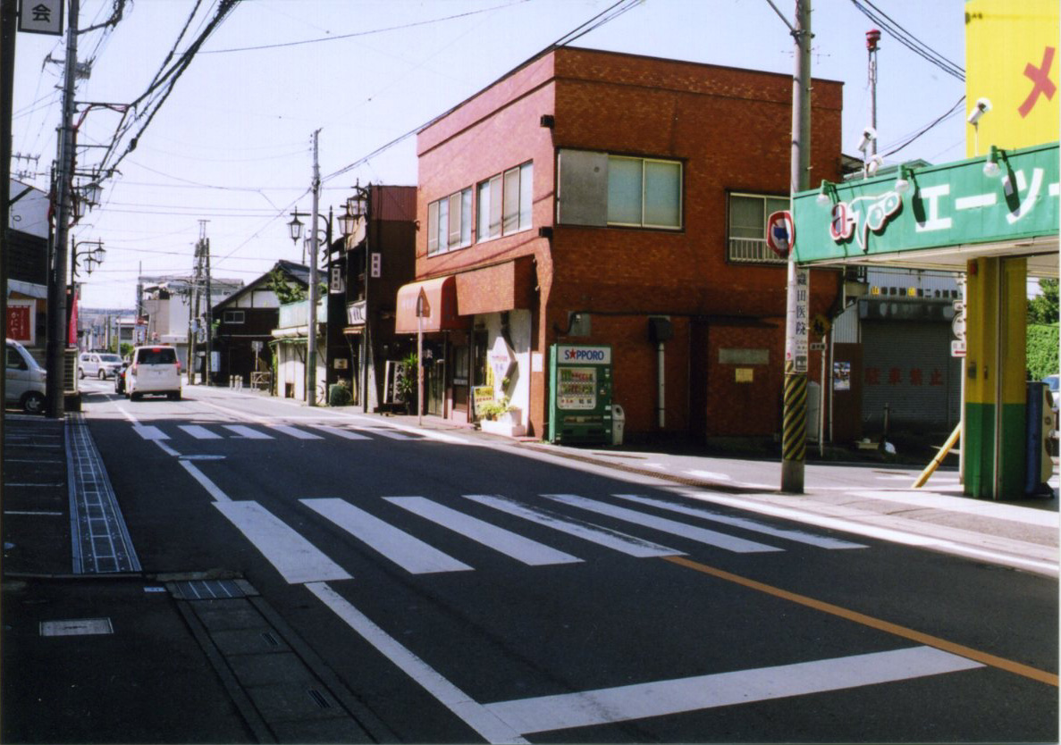 The ruin of junction of Iruma Horse Tram and Chubu Horse Tram(Irumagawa,Sayama-shi,SAITAMA,Japan)